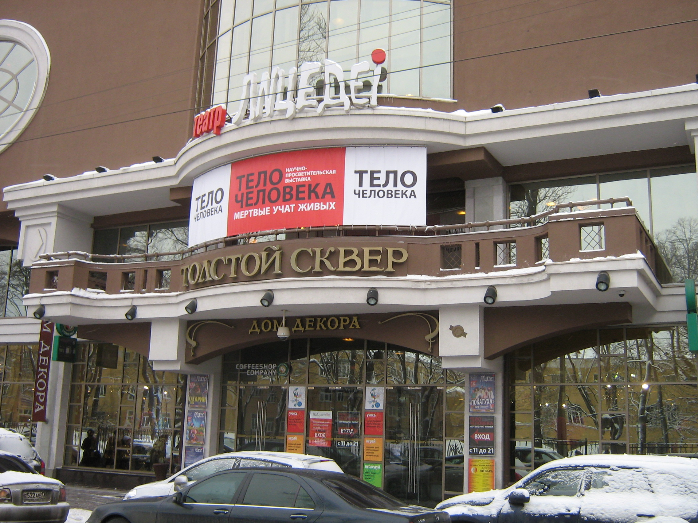 Saint Petersburg (Russia), Kamennoostrovsky Prospekt